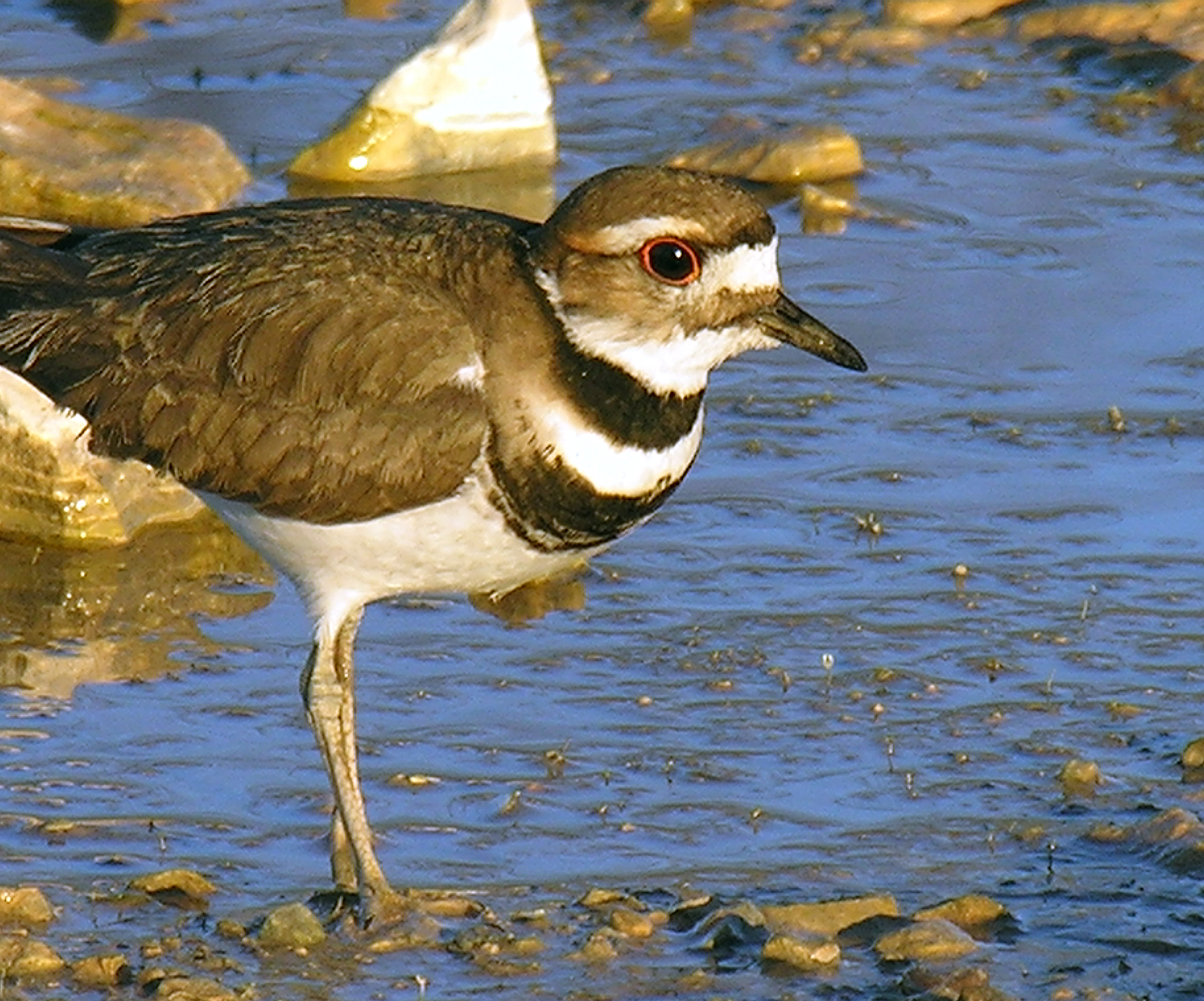 Killdeer (Charadrius vociferus), Amistad National Recreational Area, Del Rio, Texas, USA